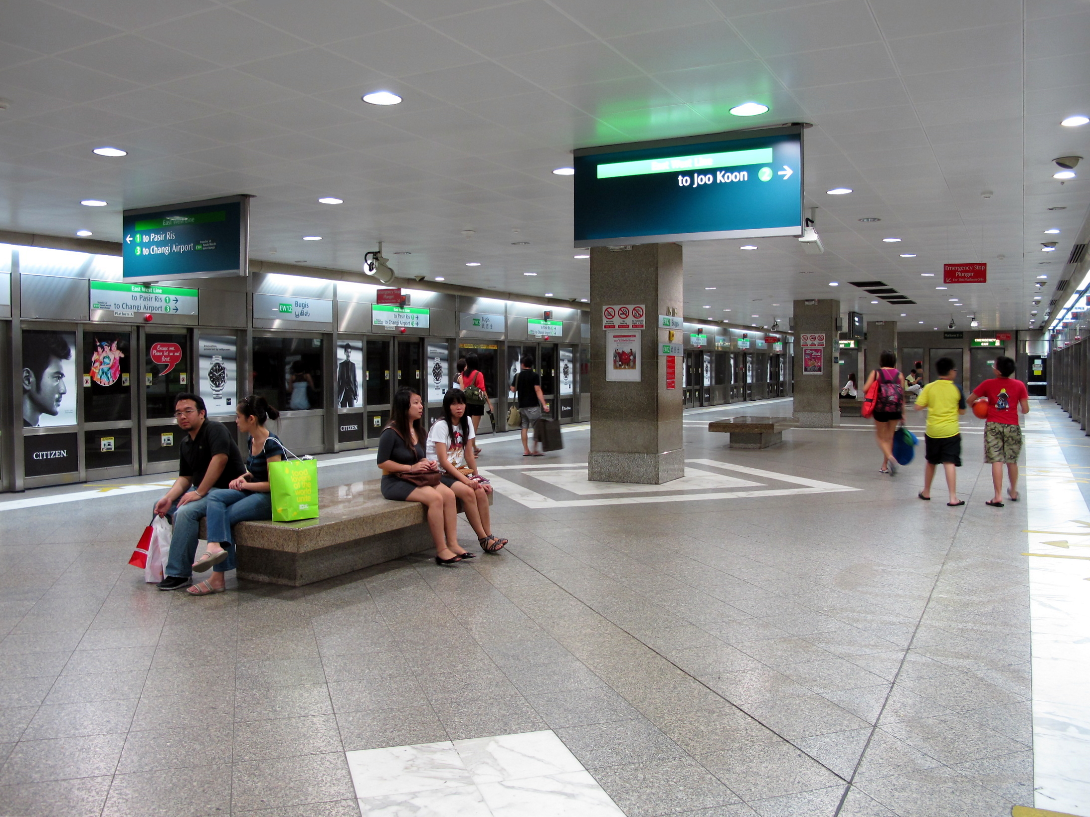 Bugis Station Platform